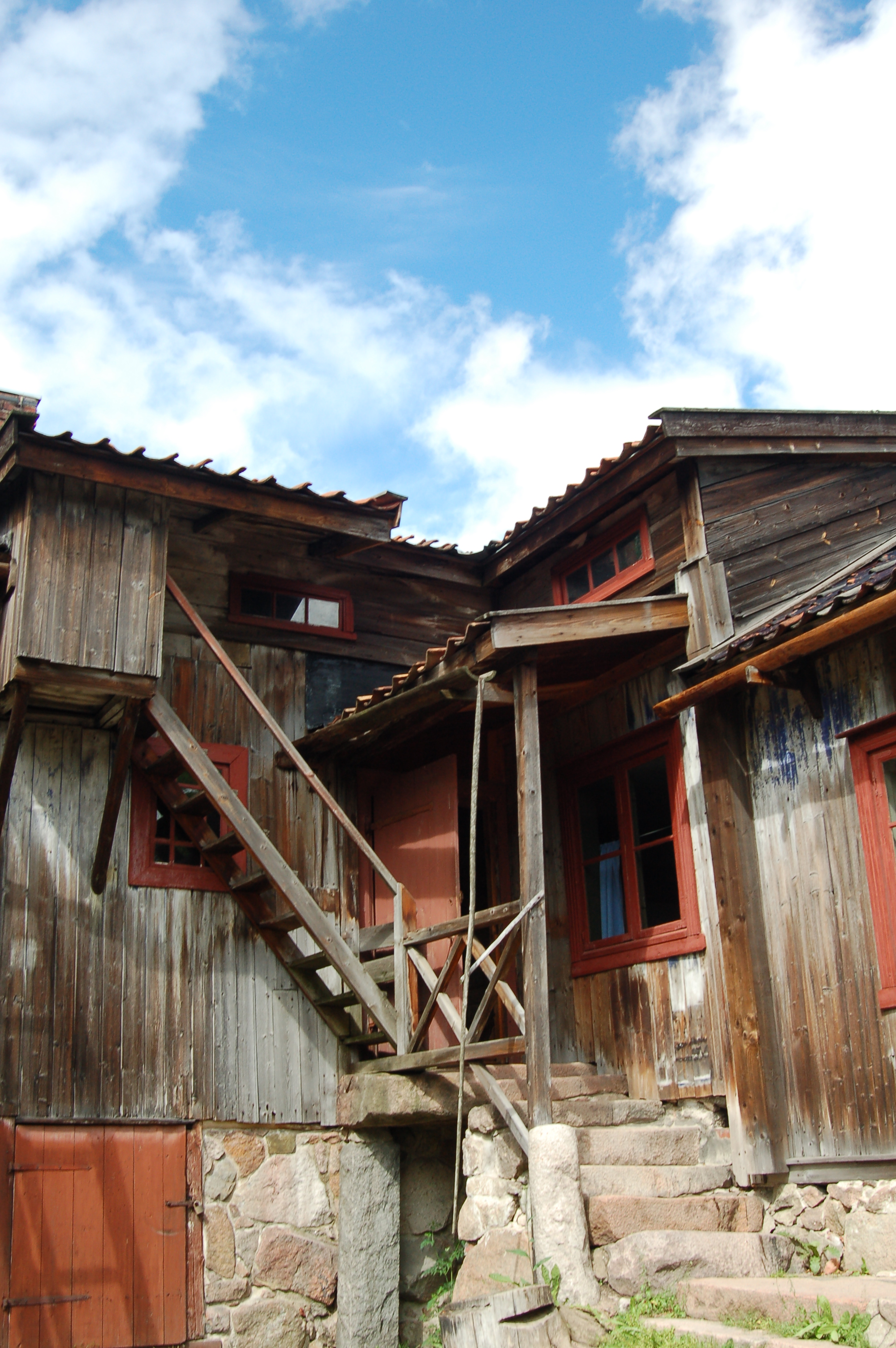 Luostarinmäki Handicrafts Museum in Turku, Finland